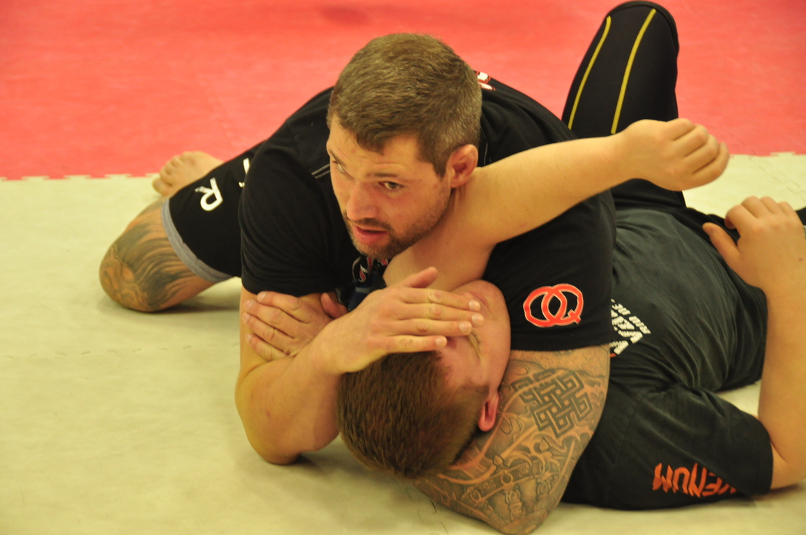 Campbell River hosted Neil Melanson training camp, the grappling trainer for notable UFC fighters Randy 'The Natural' Couture, Gray Maynard, Vitor Belfort and others.